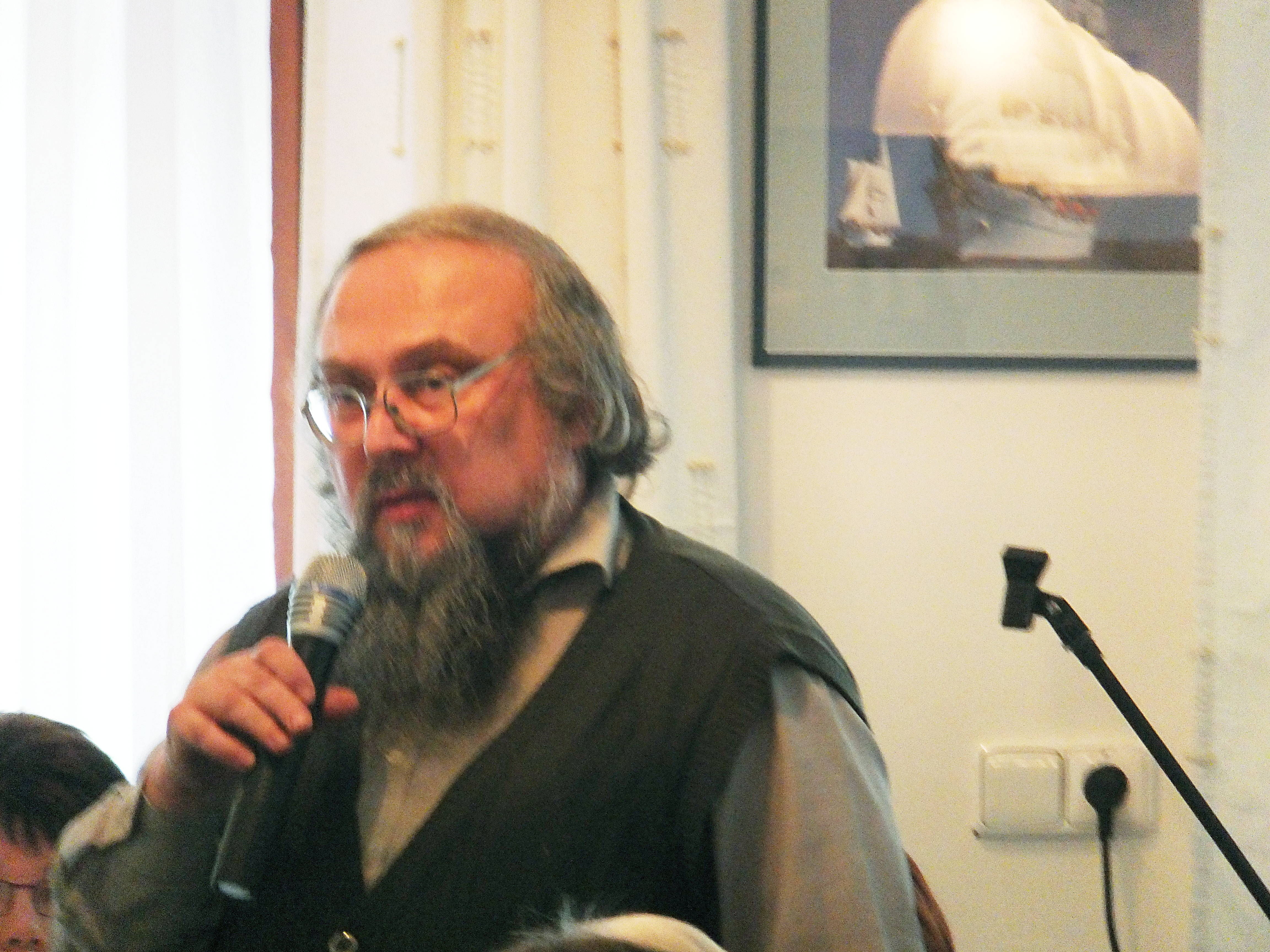 Czech environmental lawyer Petr Kužvart in the hotel "Atlantida" in Živohošť on the public meeting against threats of goldmining in Mokrsko